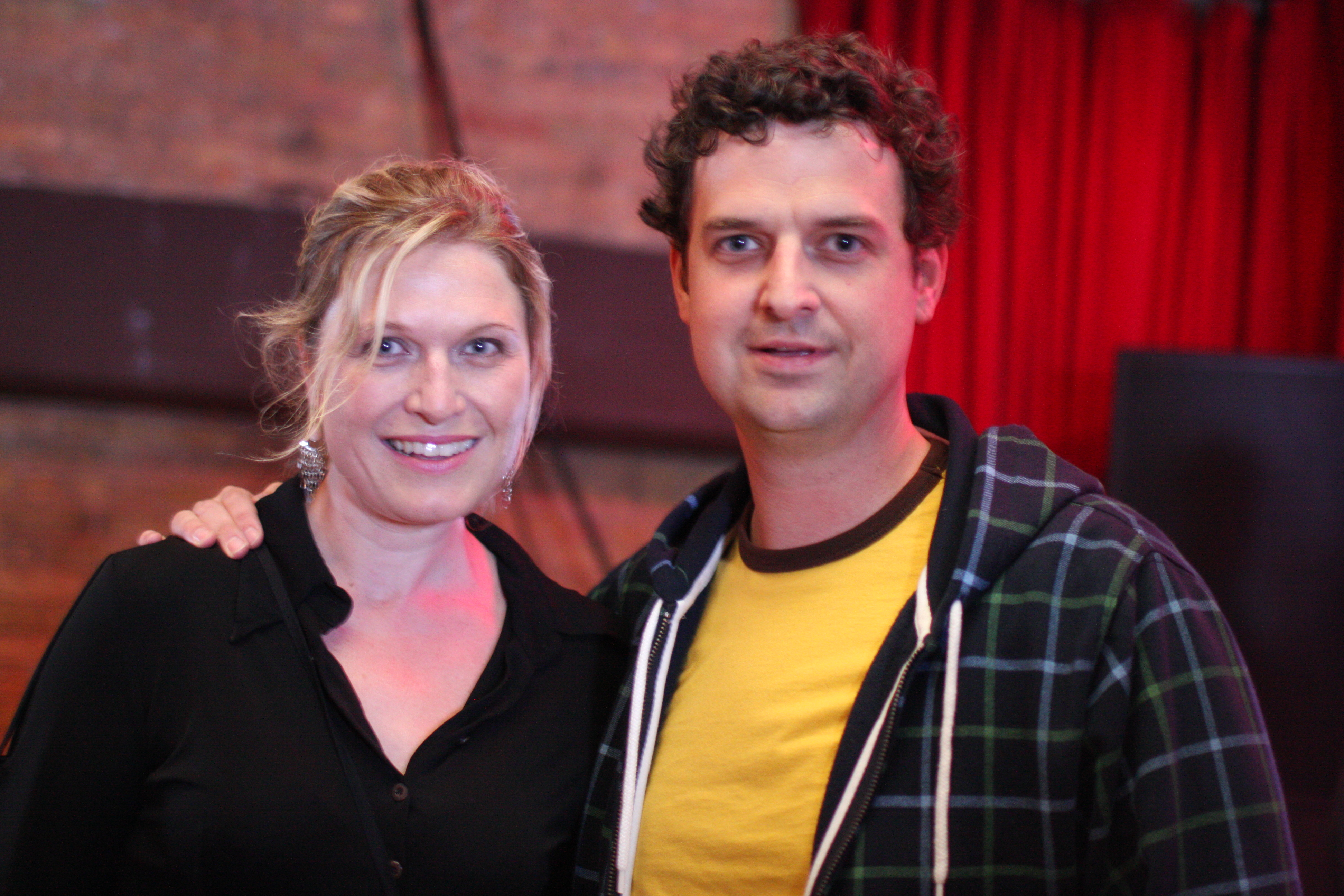 Tosca Musk and Jeff Macpherson, producer and star of Web series TikiBarTV (CC) Brian Solis, . Feel free to use this picture. Please credit as shown.